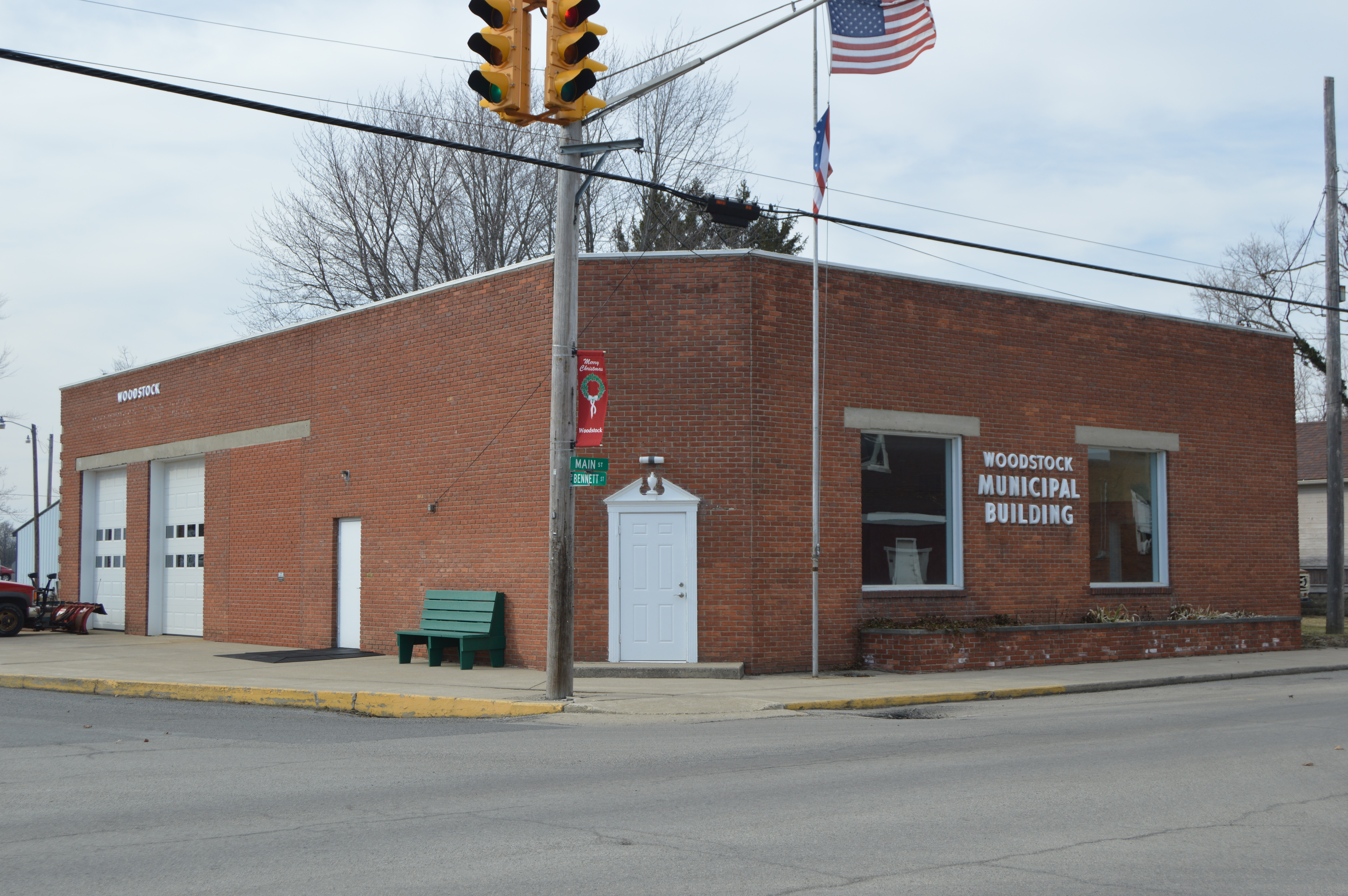 Front and southern side of the Woodstock village hall and fire station, located on the northwestern corner of the junction of Main (State Route 559) and Bennett Streets in Woodstock, Ohio, United States.